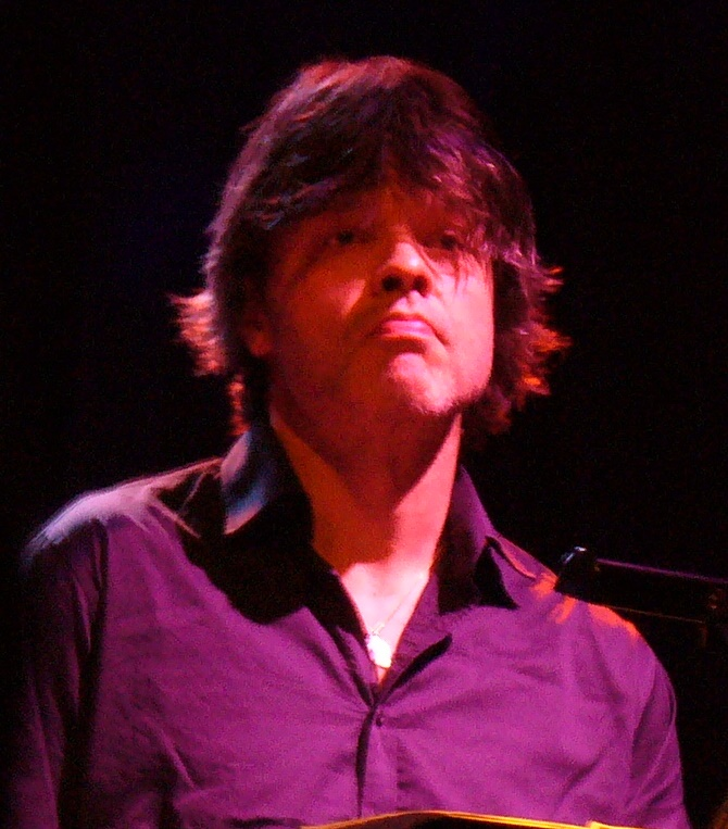 Ivar Kolve at Vossajazz April 13, 2014